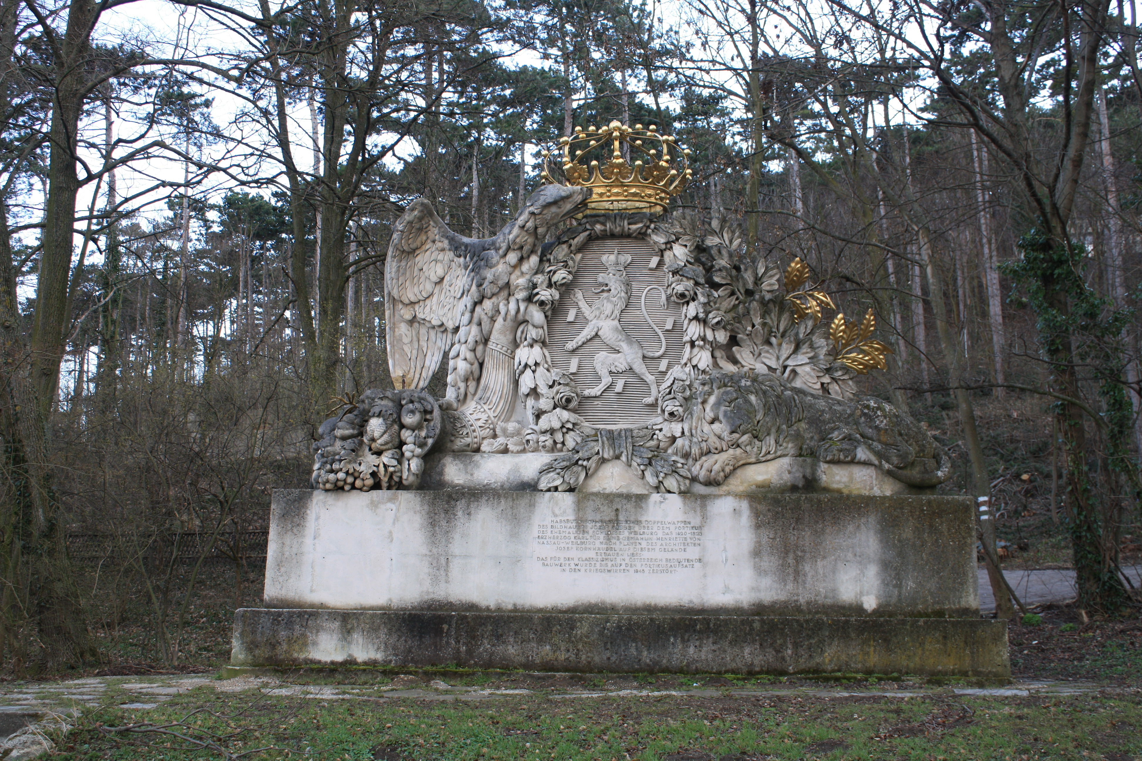 Rest of Weilburg in Baden bei Wien, Lower Austria